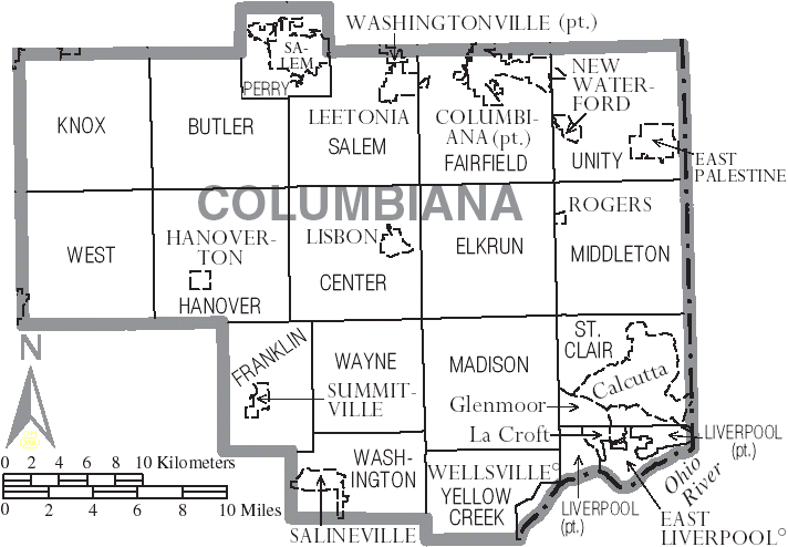 Map of Columbiana County, Ohio, United States with township and municipal boundaries